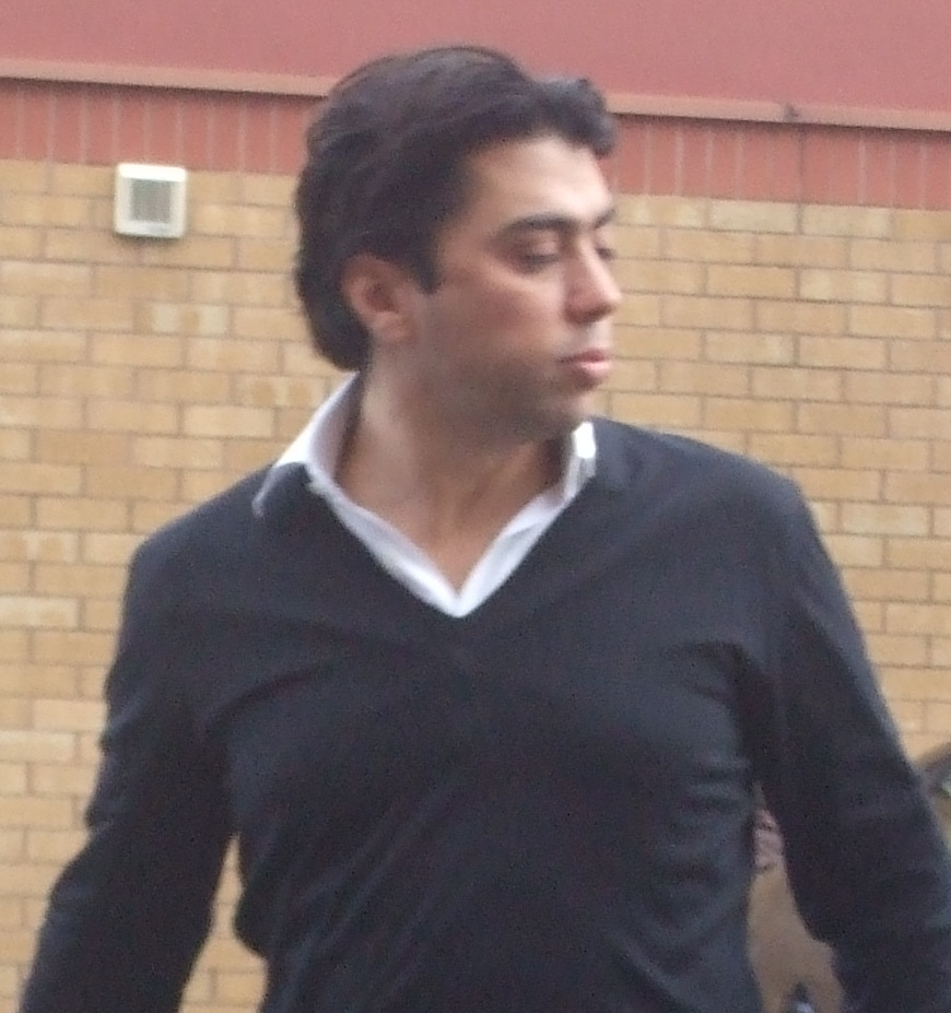 Kia Joorabchian